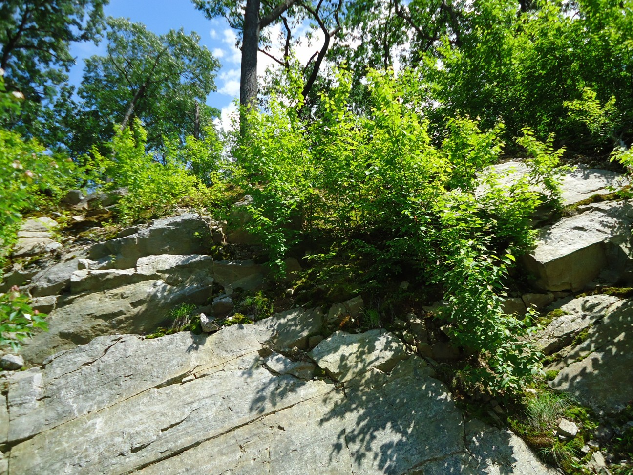 Shrubberies growing out of rocks in Bloomingdale, New Jersey.